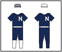 Uniforms of the Nashville Seraphs minor league baseball team